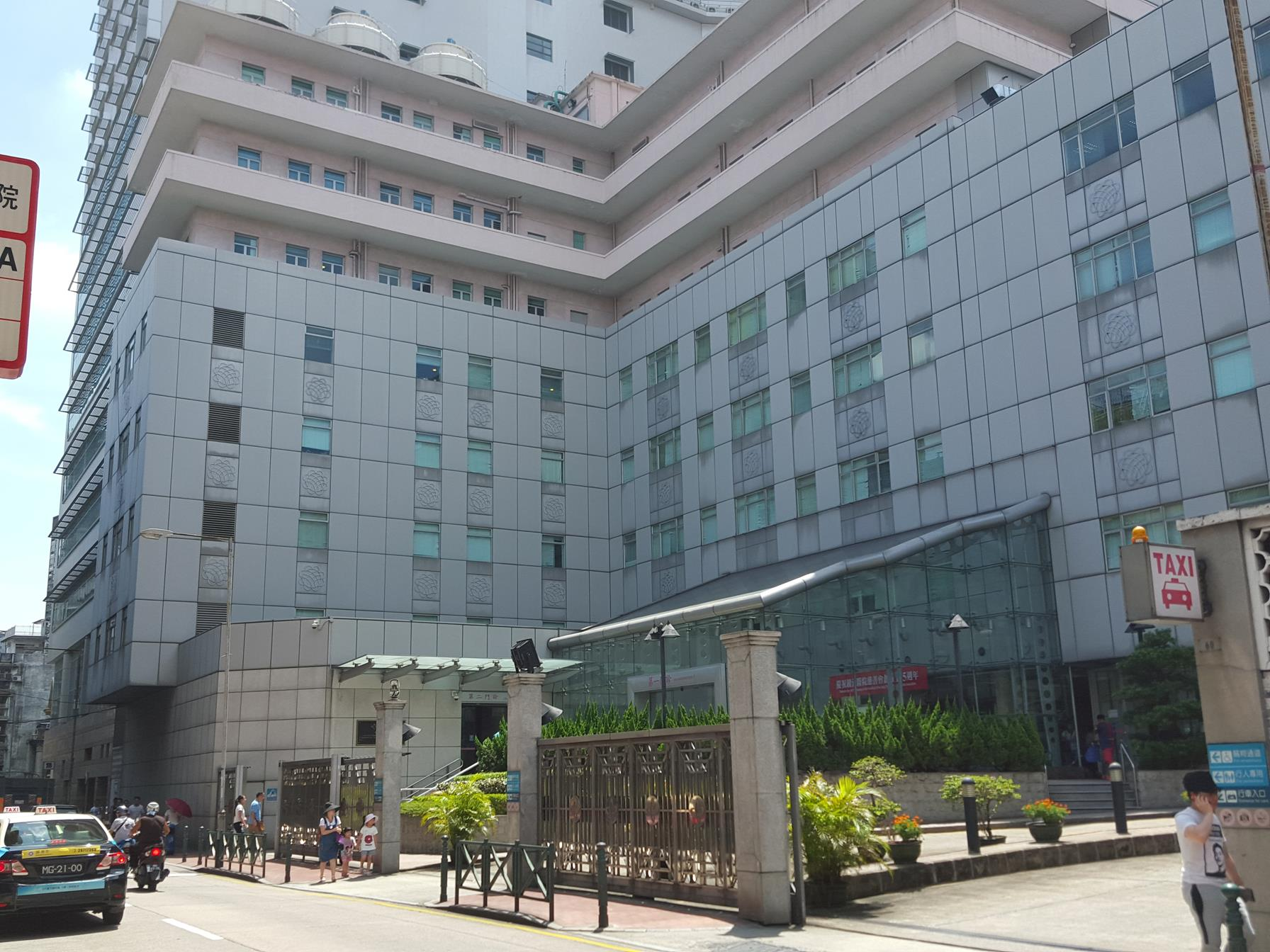 Kiang Wu Hospital